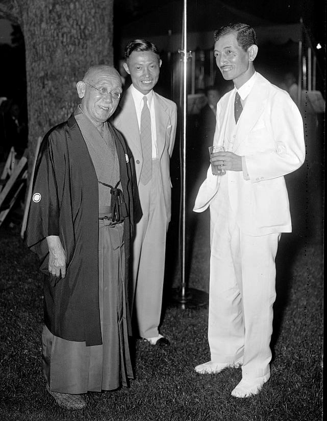 Noted Japanese lawyer. Washington, D.C., July 1. Dr. Rokuichiro Masujima (増島六一郎), internationally famous lawyer and legal advisor to the Japanese Ambassador to London, snapped at the party last night in honor of Dr. H.H. Kung, Chinese Finance Minister, at the Chinese Embassy, 7/1/37. (original text) The person on the right is Hiroshi Saitō.